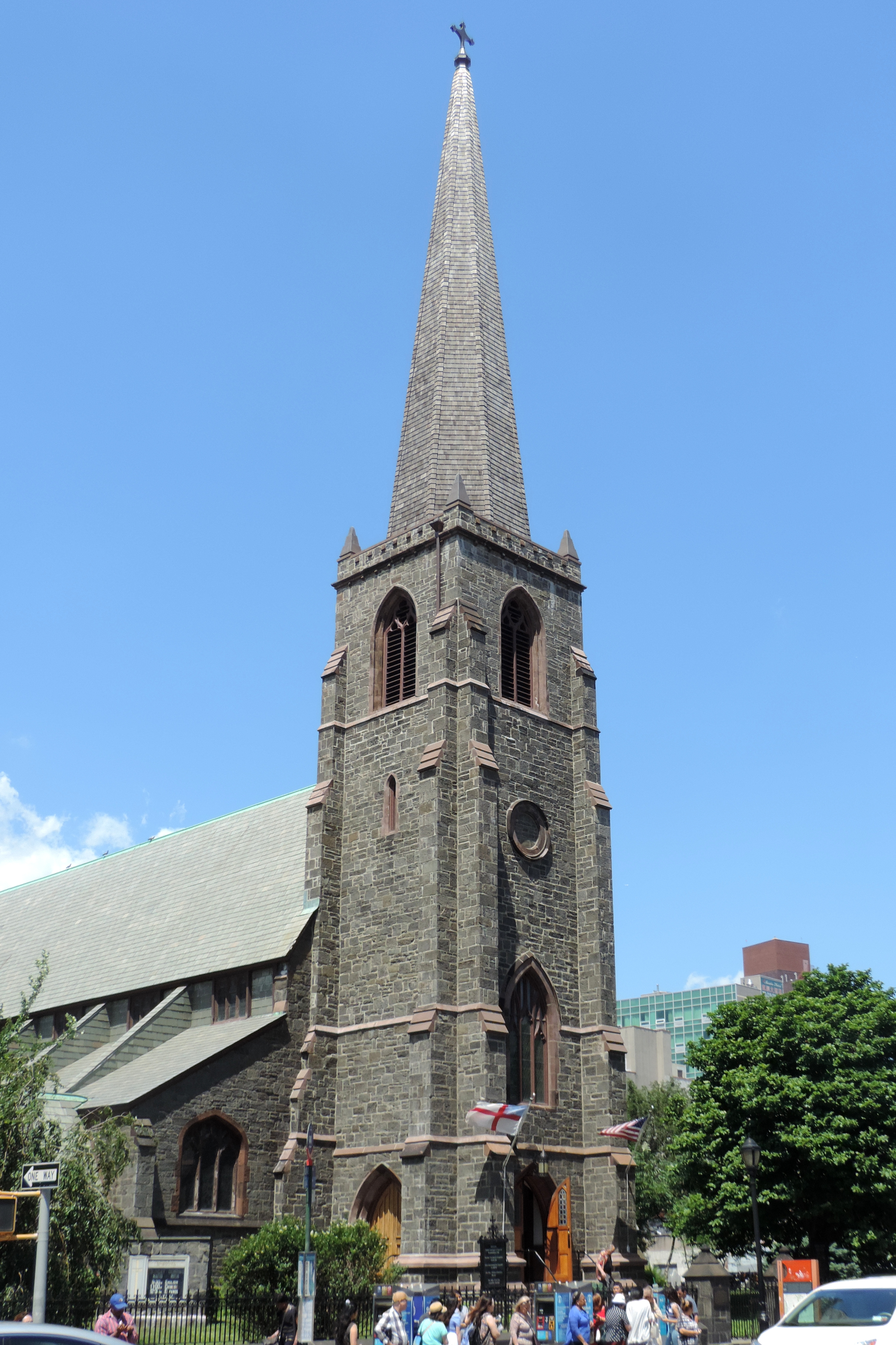 Looking west across Main Street at St George Church on a sunny midday.